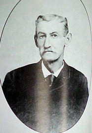 E. Jefferson “Jeff” Cain, engineer from crew of the General; pursued Andrew's raiders